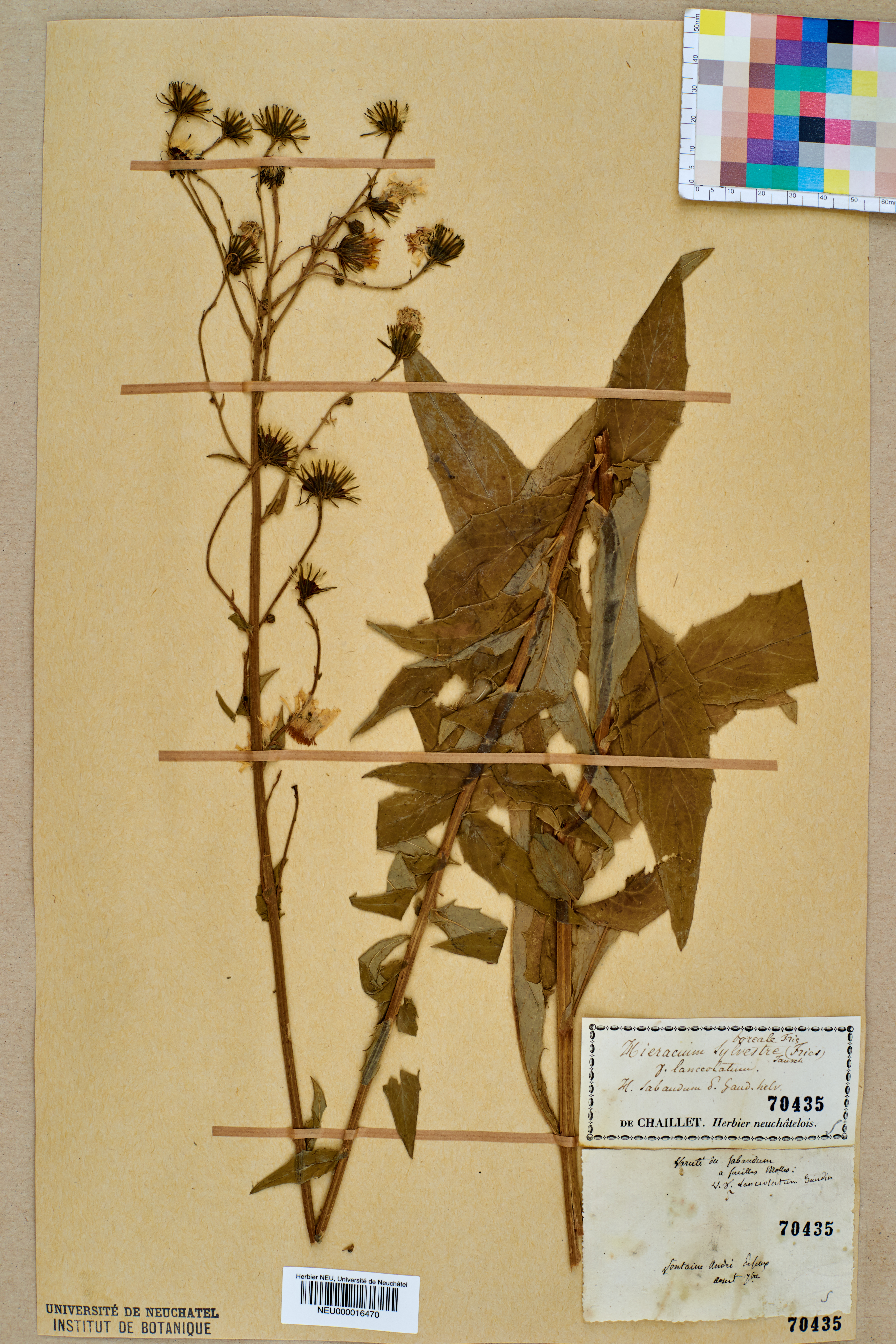 Dried pressed specimen of Hieracium sabaudum